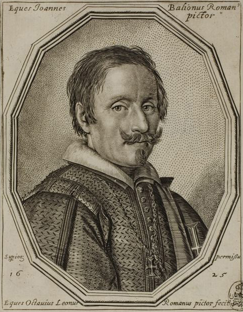 Painter Giovanni Baglione on a 1625 engraving-etching by Ottavio Leoni.